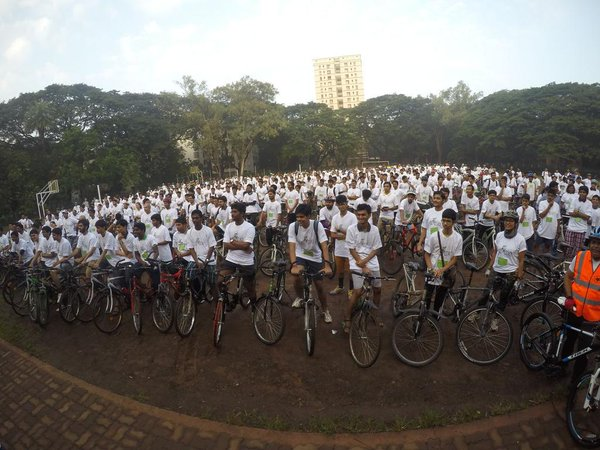 Participants at Cyclothon as a part of ReCycle